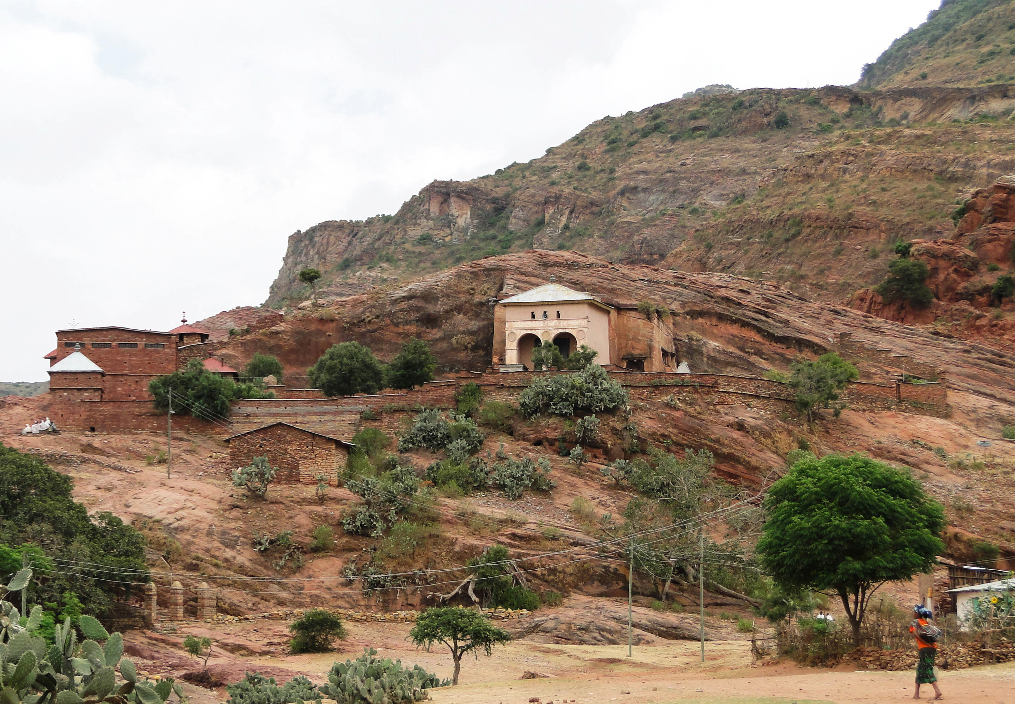 View of Abreha and Atsbeha Church, Ethiopia